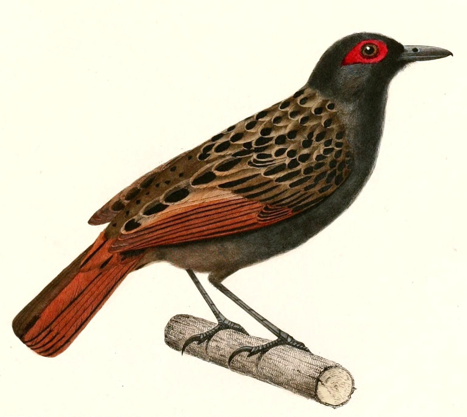 « Myothera nigromaculatus » = Phlegopsis nigromaculata (Black-spotted Bare-eye)